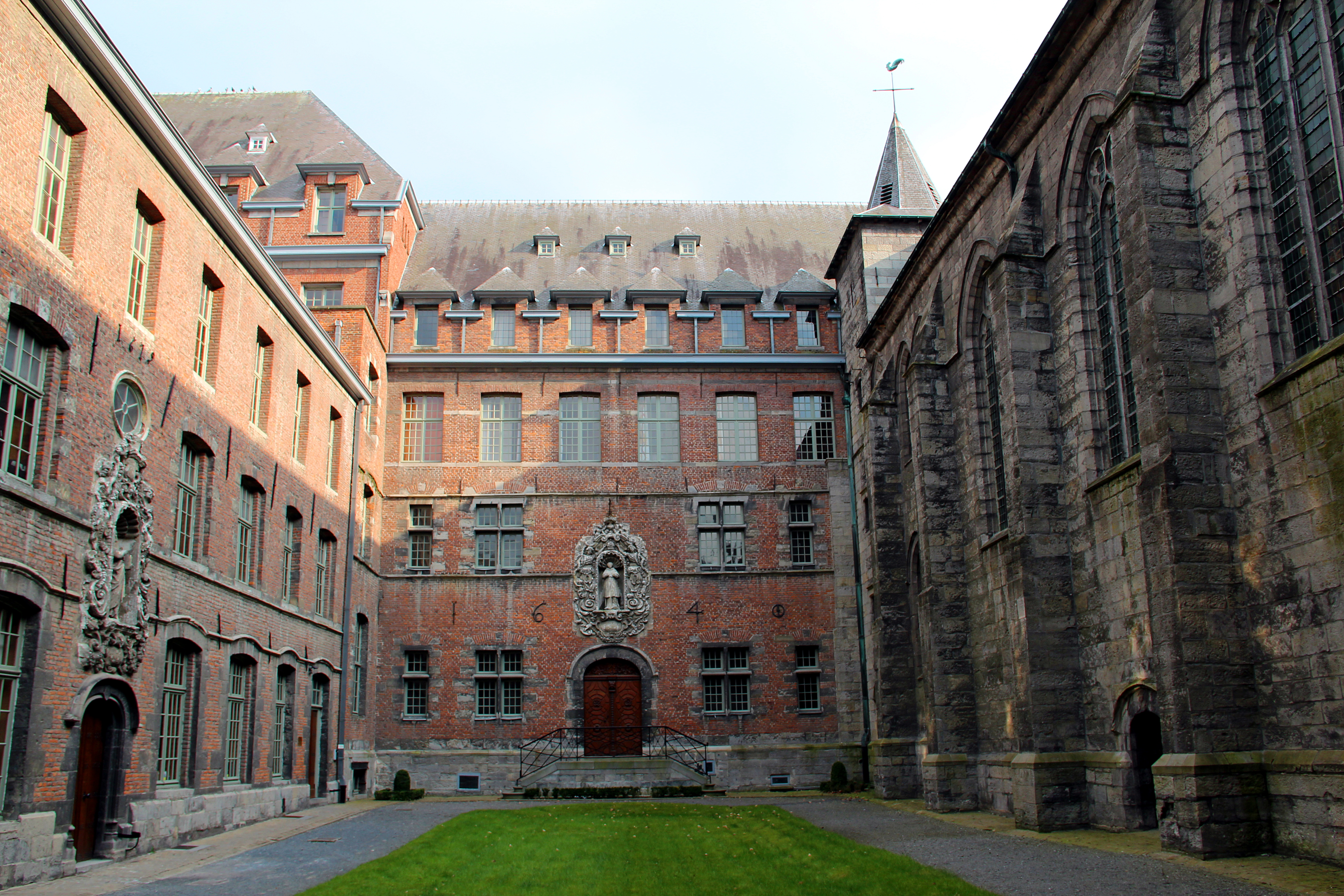 Tournai (Belgium), the episcopalian seminary (1640).